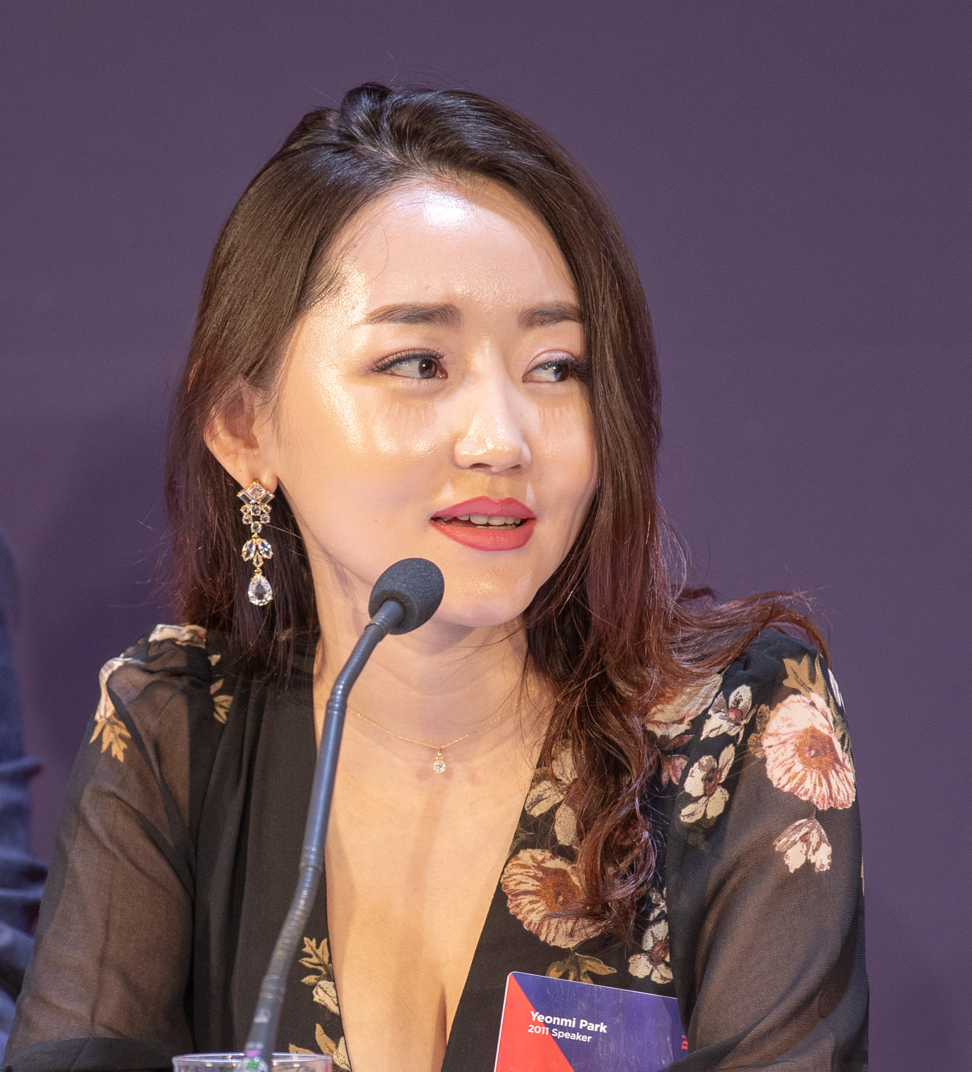 Yeonmi Park at the press conference of the 2018 Oslo Freedom Forum.